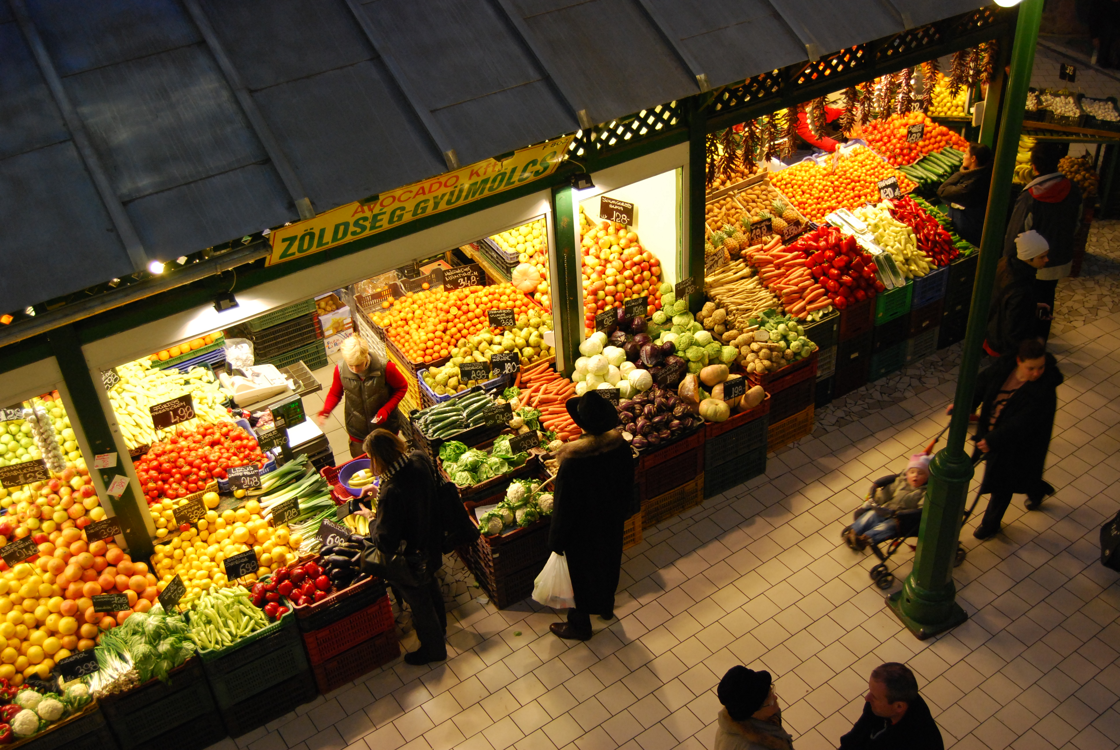 Market "Lehel Csarnok" in Budapest, Hungary